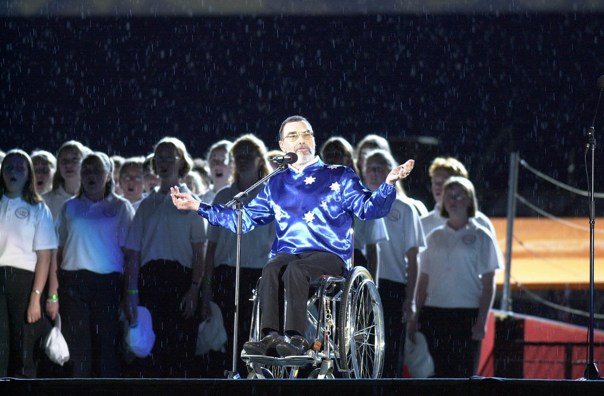 Australian singer Jeff St. John (Jeff Newton) performs at the Opening Ceremony of the 2000 Sydney Paralympic Games, with a choir behind him. He wears a blue shirt with the Southern Cross on it. Jeff St. John sang the Australian national anthem "Advance Australia Fair" and "The Challenge" during the ceremony.